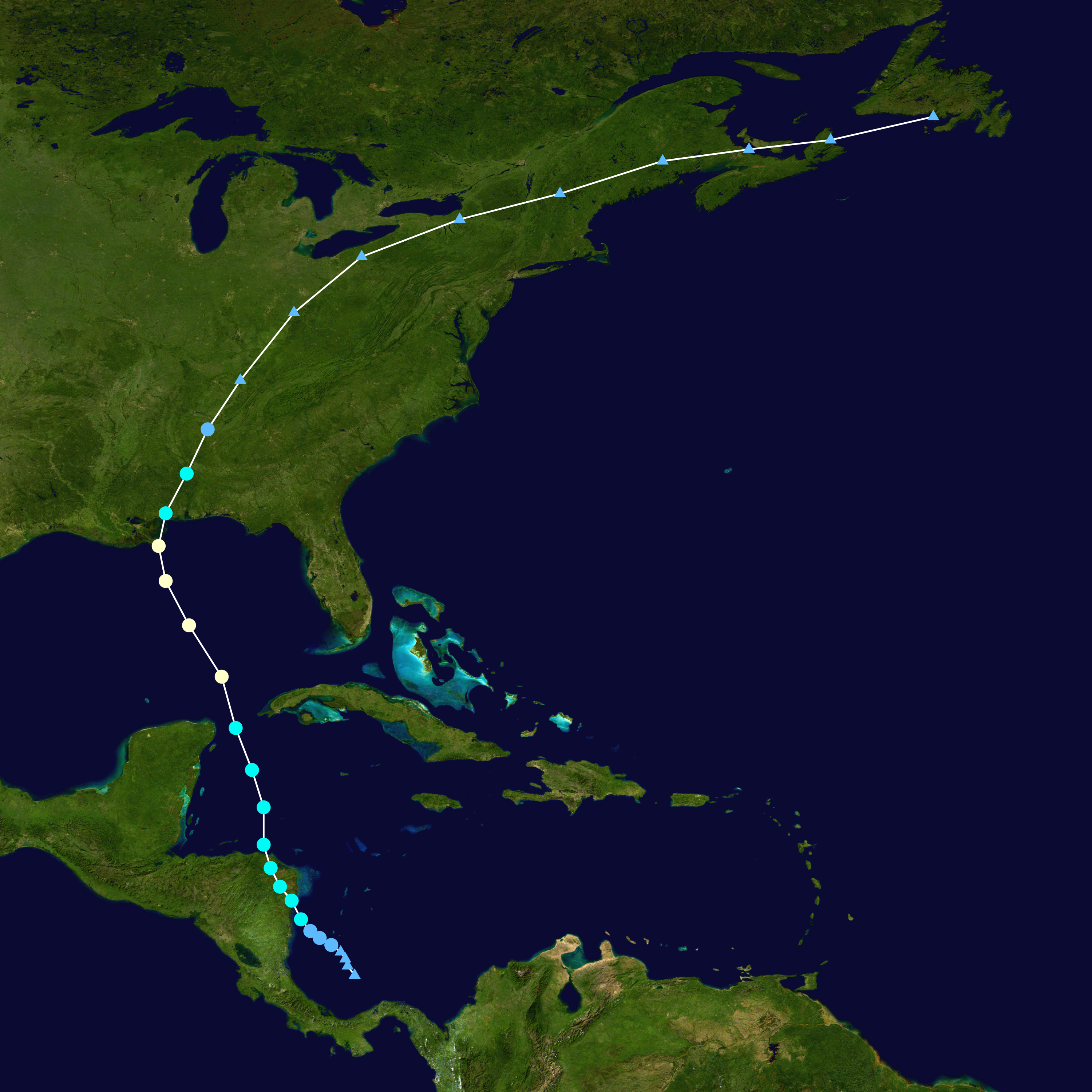 Track map of Hurricane Nate of the 2017 Atlantic hurricane season. The points show the location of the storm at 6-hour intervals. The colour represents the storm's maximum sustained wind speeds as classified in the Saffir–Simpson scale (see below), and the shape of the data points represent the nature of the storm, according to the legend below. Saffir–Simpson scale Tropical depression≤38 mph≤62 km/h Category 3111–129 mph178–208 km/h Tropical storm39–73 mph63–118 km/h Category 4130–156 mph209–251 km/h Category 174–95 mph119–153 km/h Category 5≥157 mph≥252 km/h Category 296–110 mph154–177 km/h Unknown Storm type Tropical cyclone Subtropical cyclone Extratropical cyclone / Remnant low / Tropical disturbance / Monsoon depression